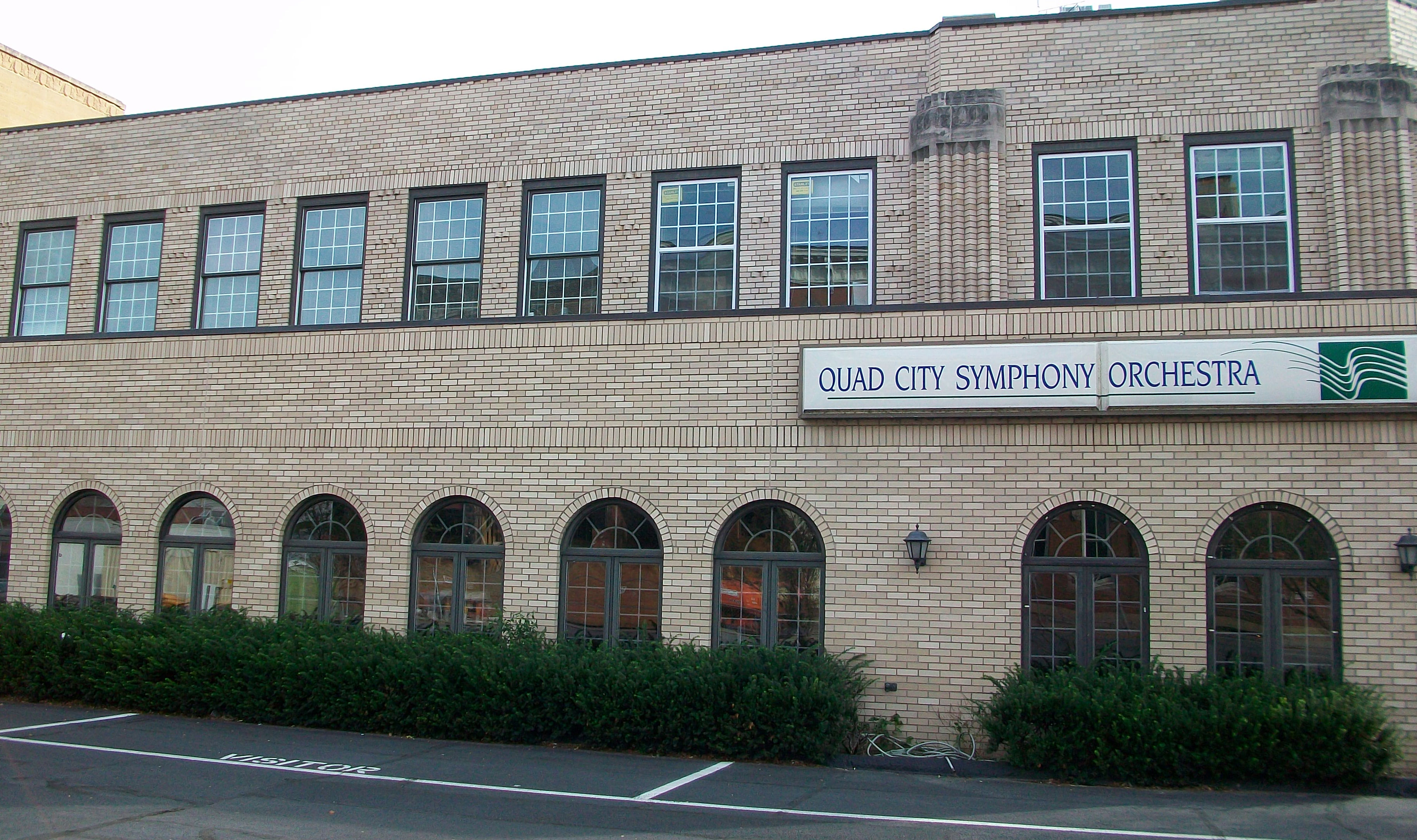 Quad City Symphony Orchestra in Davenport, Iowa